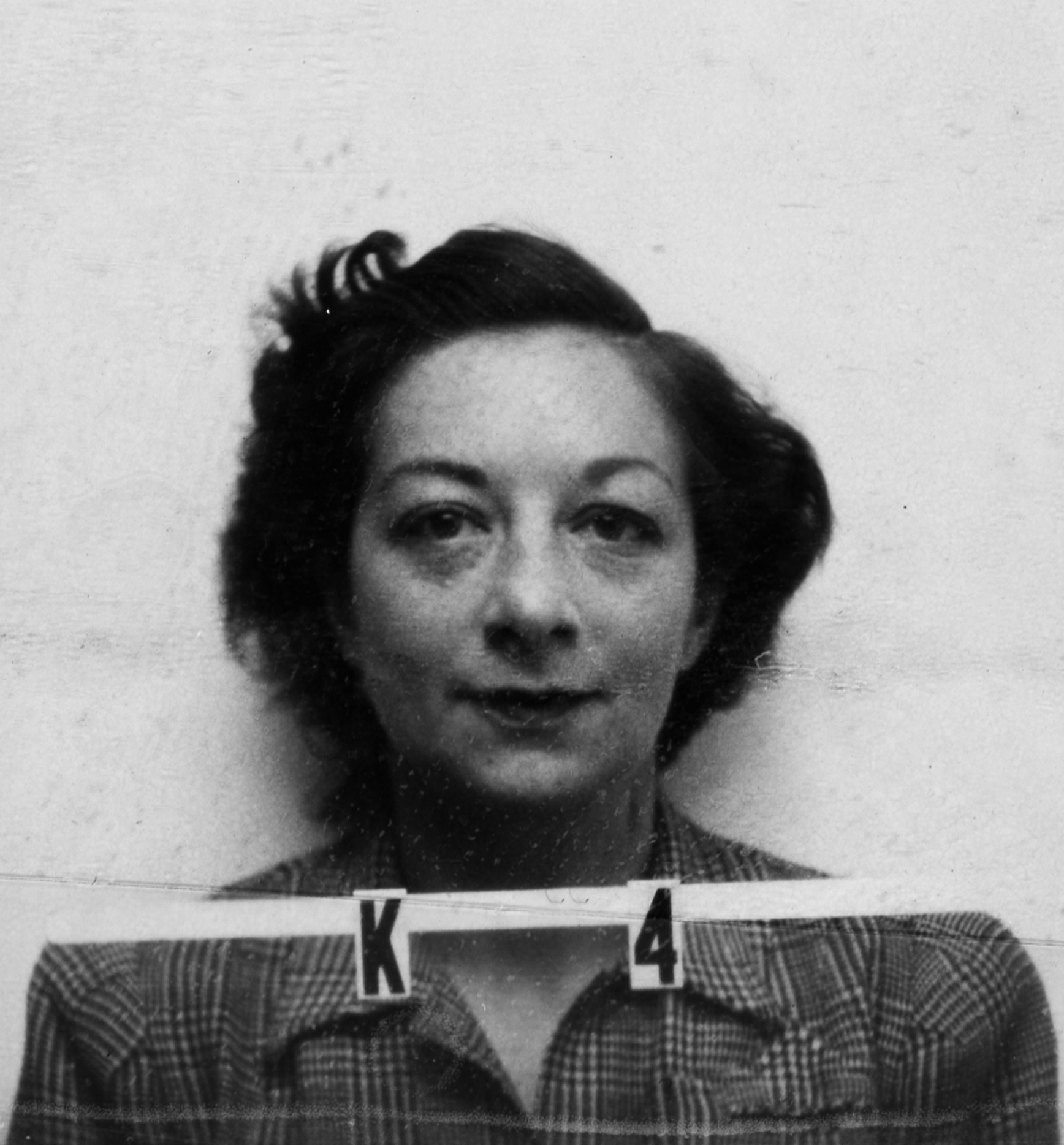 Charlotte Serber Los Alamos wartime security badge.